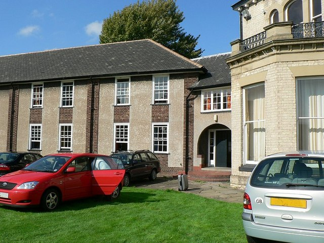 Needler Hall, University of Hull, Cottingham, East Riding of Yorkshire, England.One of the accommodation blocks, on the day the new students arrive.